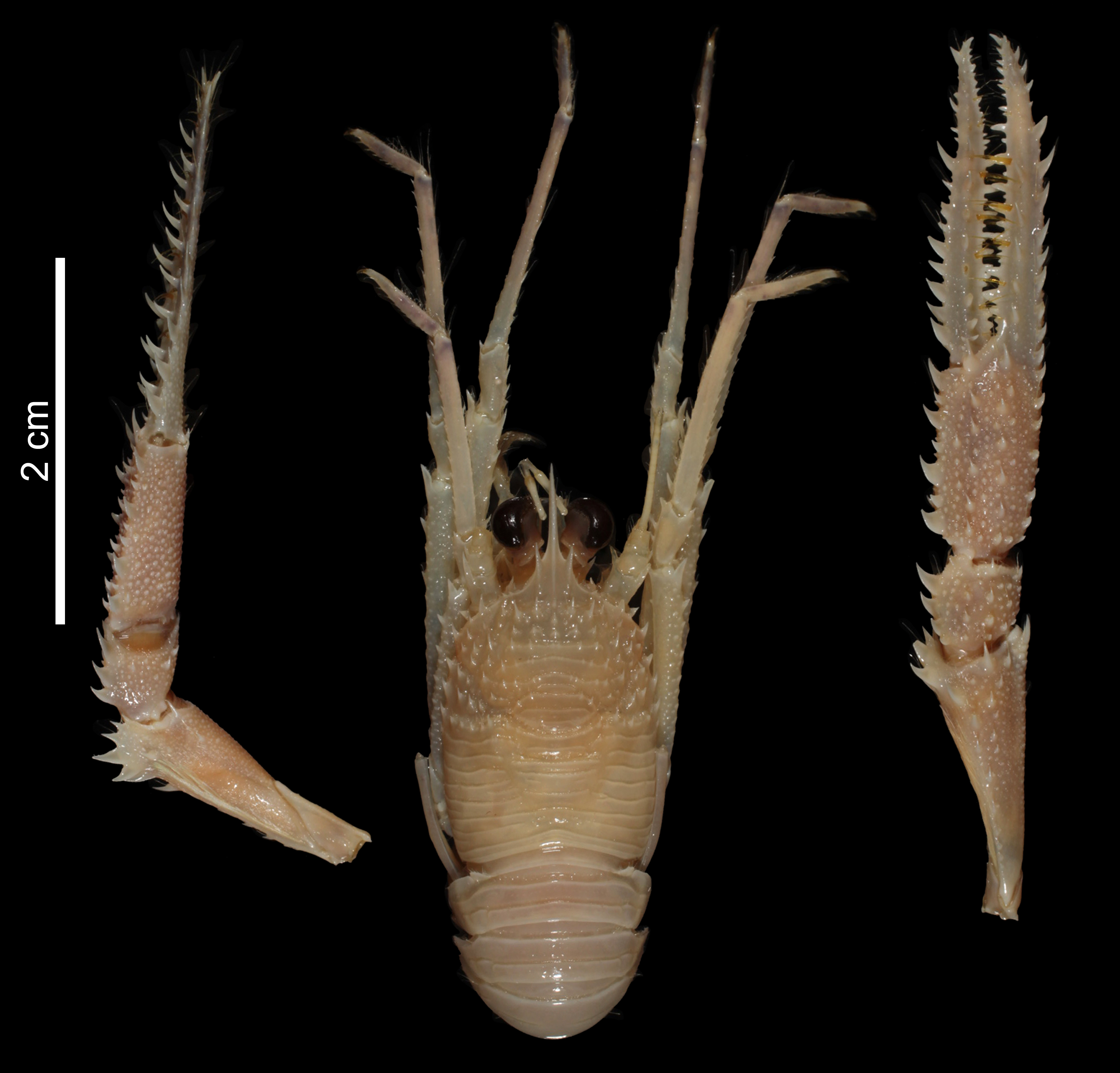 PRESERVED_SPECIMEN; Munida hystrix Macpherson & de Saint Laurent, 1991 ; Type status: HOLOTYPE; Identified by: de Saint Laurent M. & Macpherson E.; Individual Count: 1 ; Event date: 1990-05-15T00:00:00Z